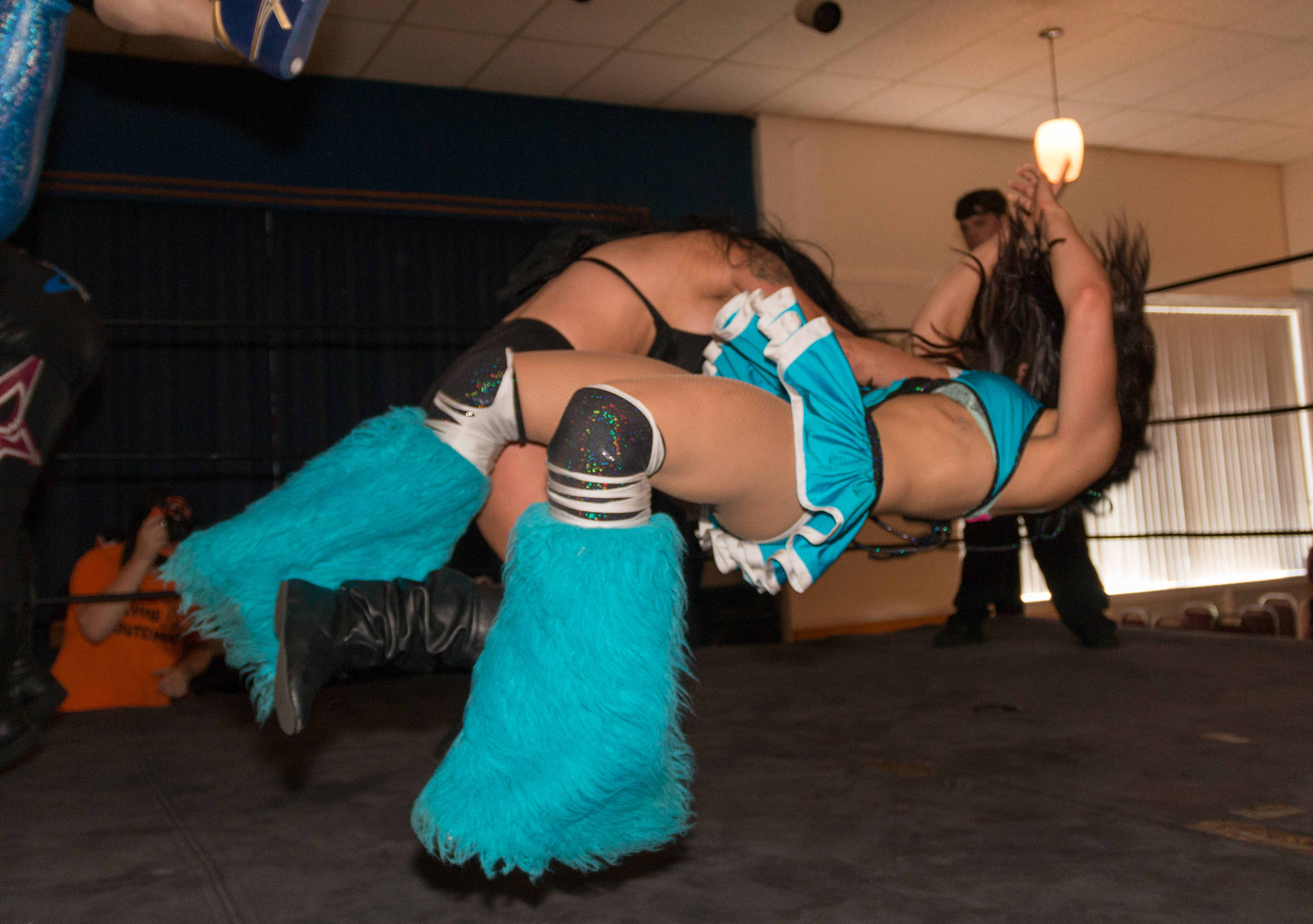 Shelly Martinez (in black) executing a Chokehold STO on Alexia Nicole (in blue)